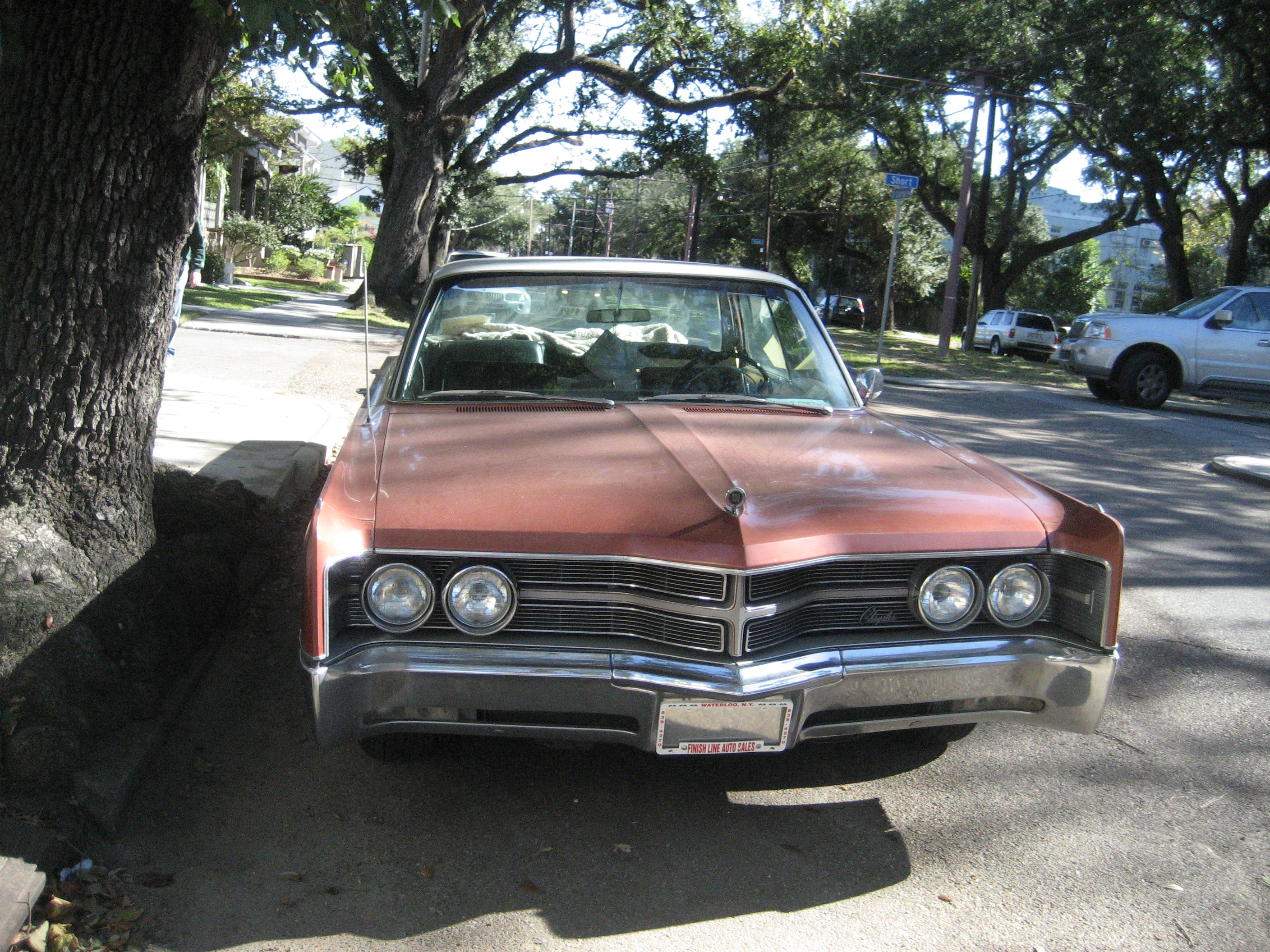 Carrollton Riverbend neighborhood of New Orleans. 1967 Chrysler 300 on St. Charles Avenue.